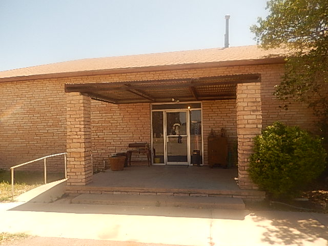 I took photo of Mendoza Trail Museum in McCamey, TX, with Nikon camera.